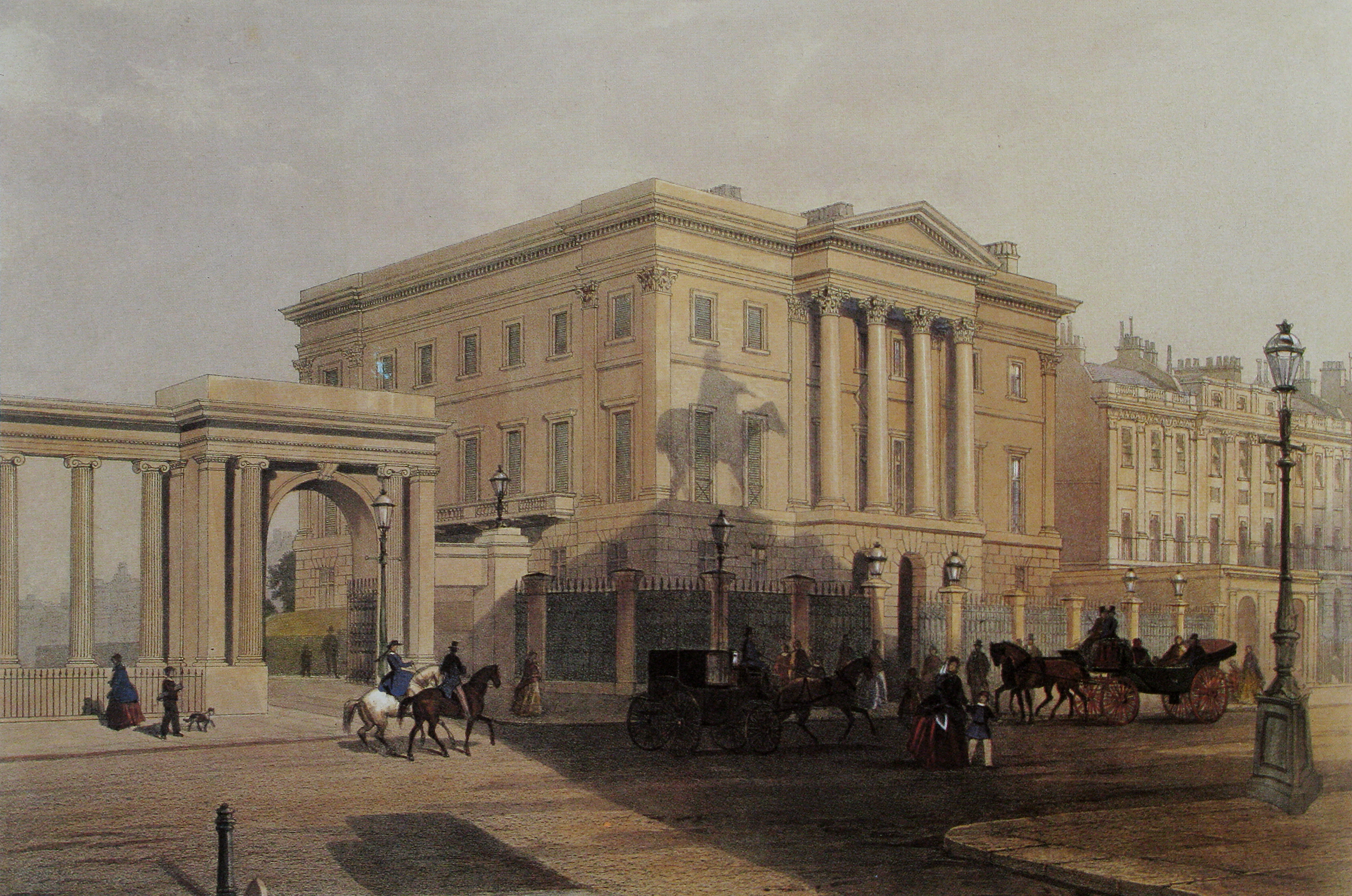 Apsley House, Westminster. The Duke of Wellington's London residence; the main gateway to Hyde Park on the left.